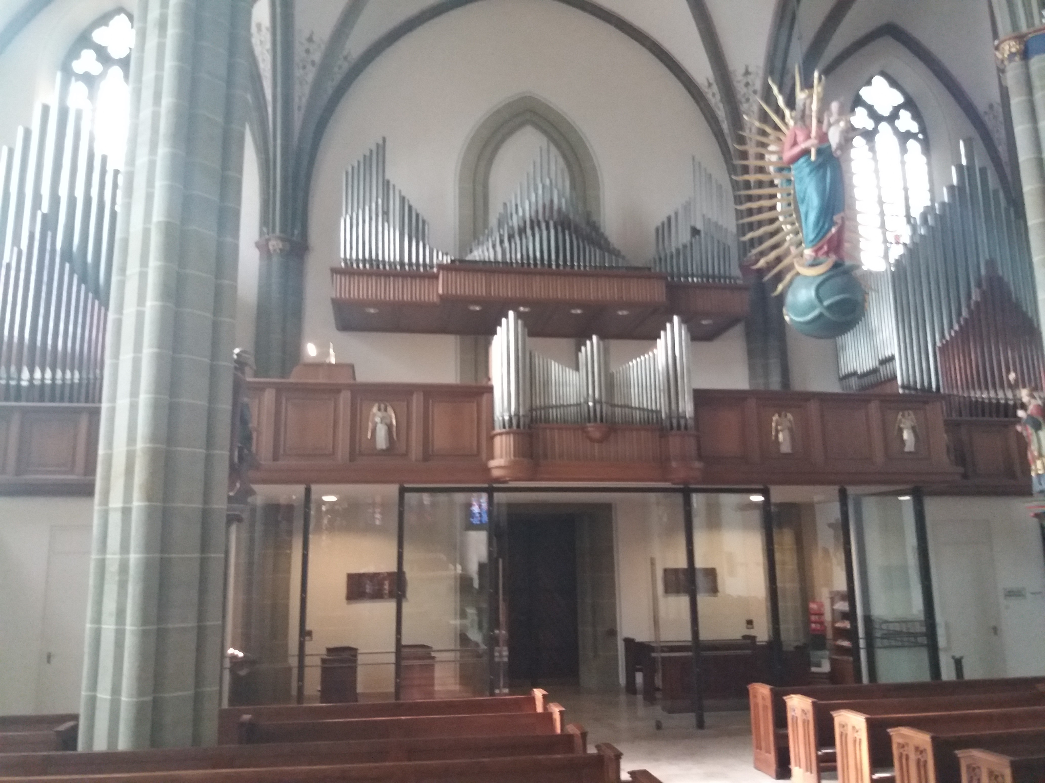 Organ